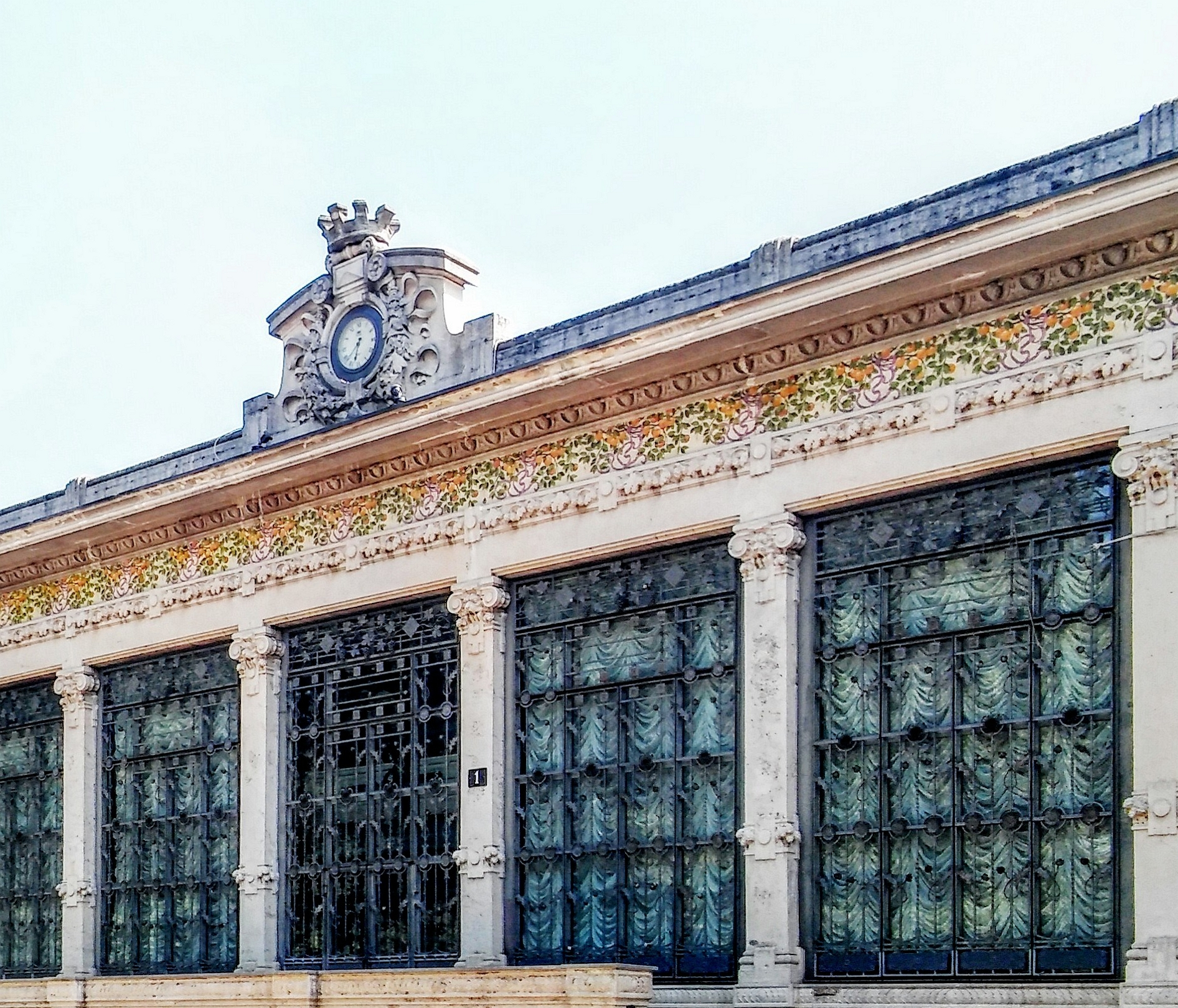 this file straightened